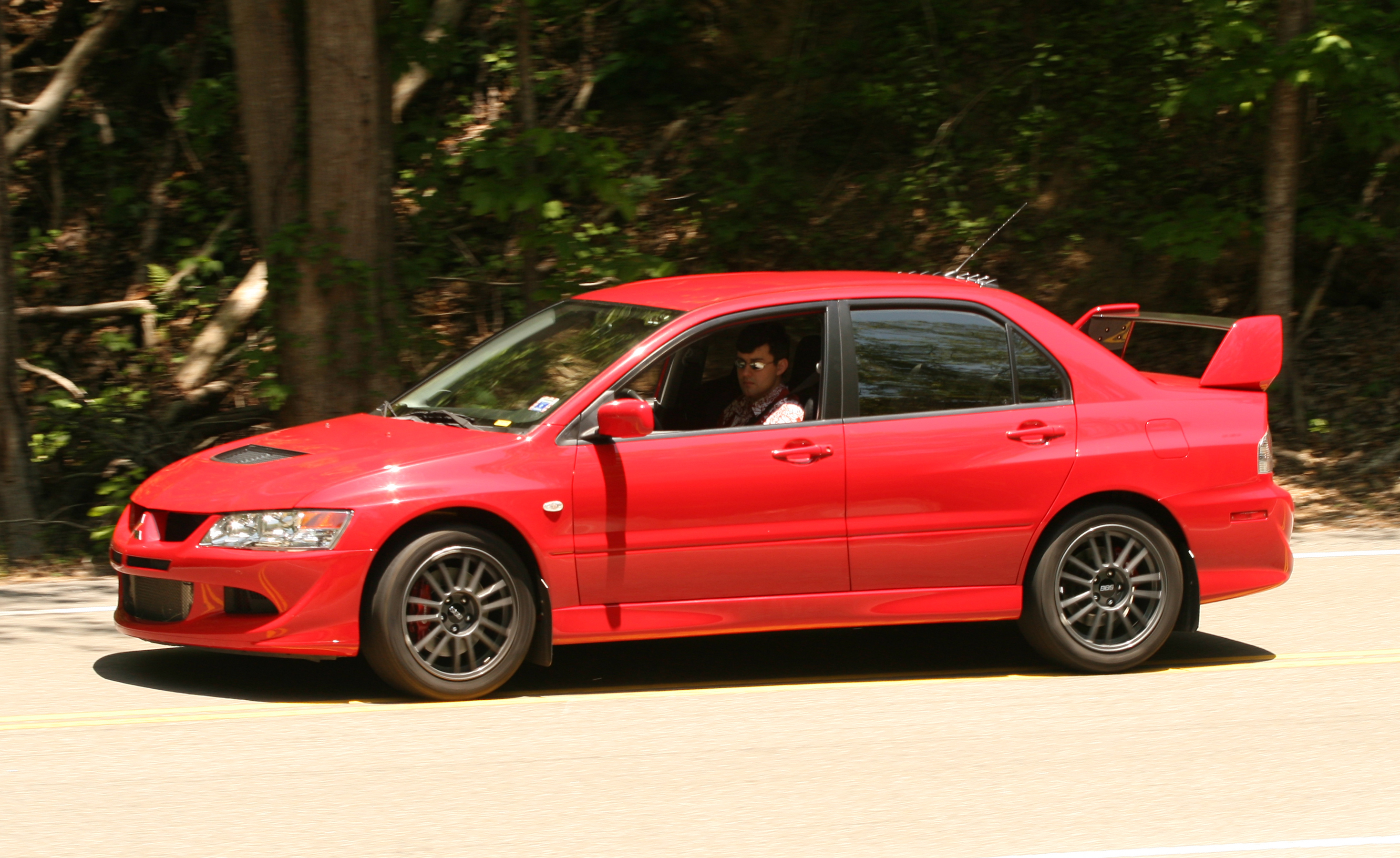 Picture of me in my 2005 Mitsubishi Lancer Evolution MR edition at Deals Gap, North Carolina. Note vortex generators along the rear of the roof and dark gray BBS forged aluminum wheels, which visually distinguish the USDM MR edition from other trim levels. My car has aftermarket rally-style mudflaps. This image is a cropped and rotated version of Image:2005 Evo at Deal's Gap 2.jpg.